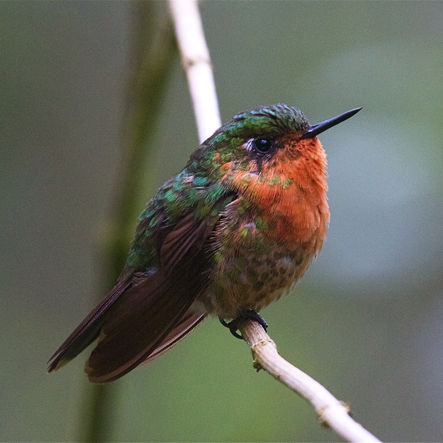 Long-tailed Sylph (female) photo taken at San Isidro Lodge (east slope), Ecuador.